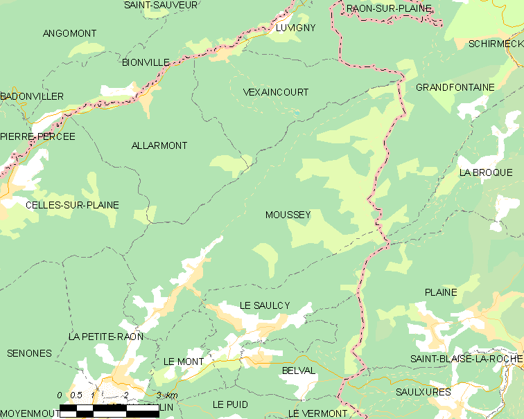 Map of French municipality Moussey